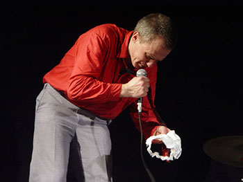 MC Einar performing in Aarhus Denmark 2011